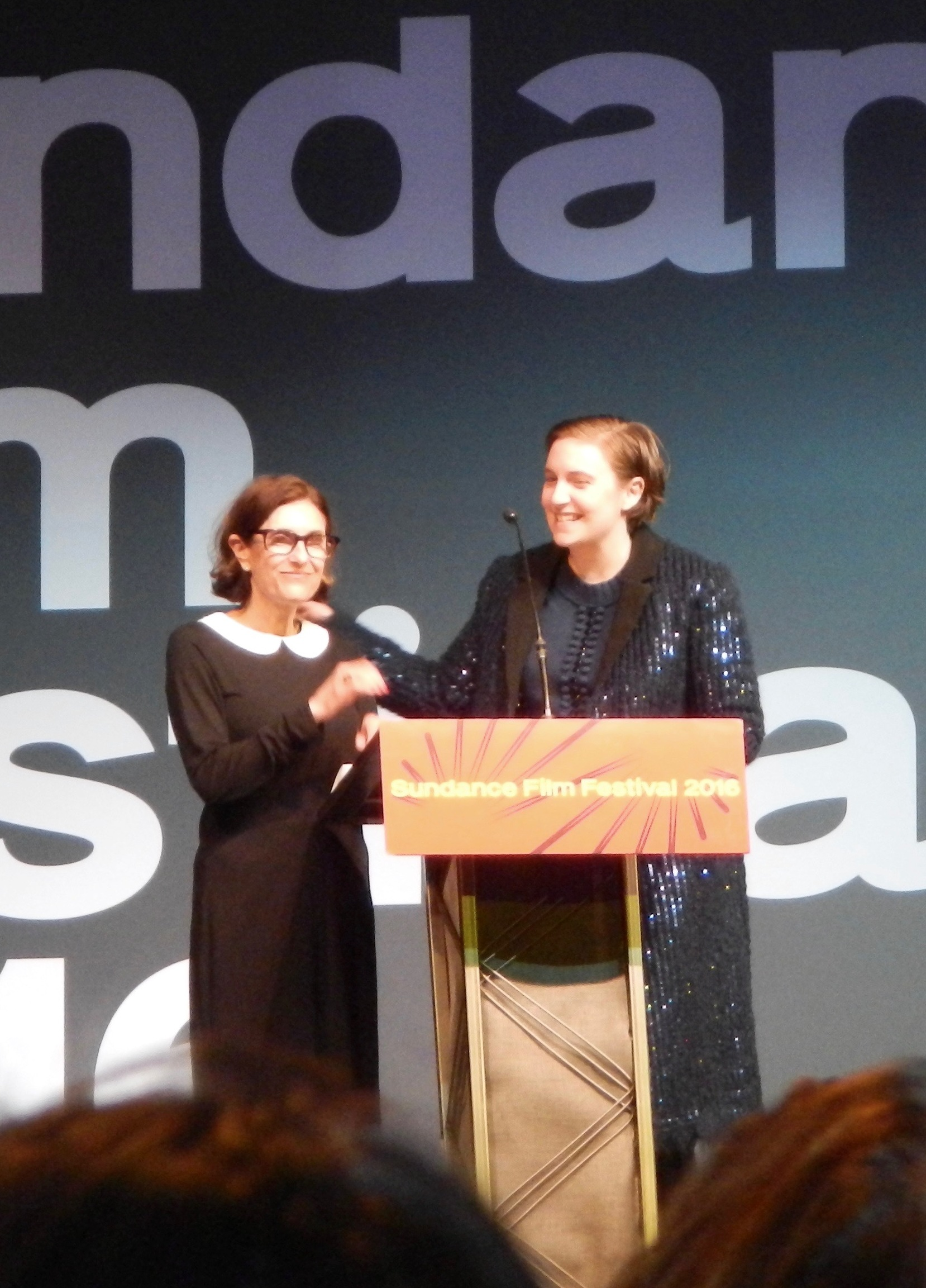 US Dramatic Jurors, 2016 Sundance Film Festival Awards, Park City UT